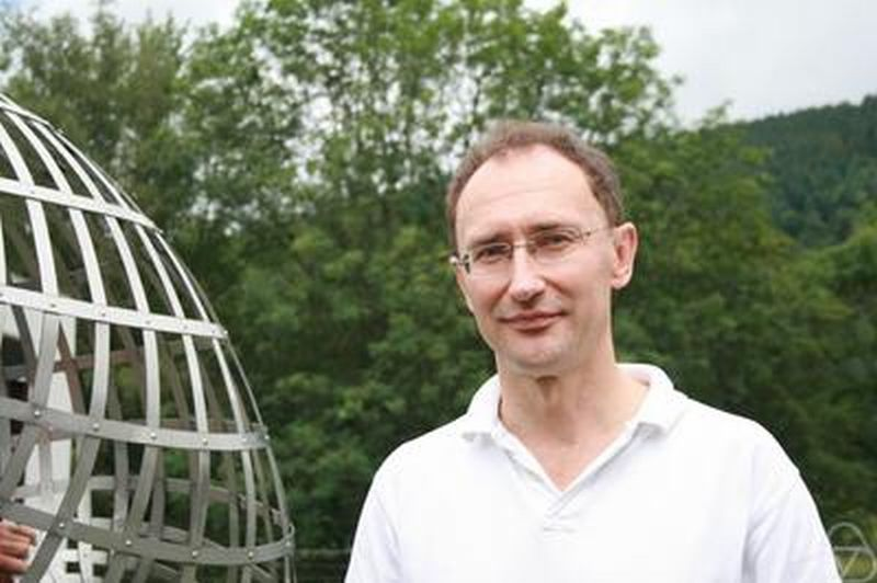 Alexander Bobenko, Oberwolfach 2012